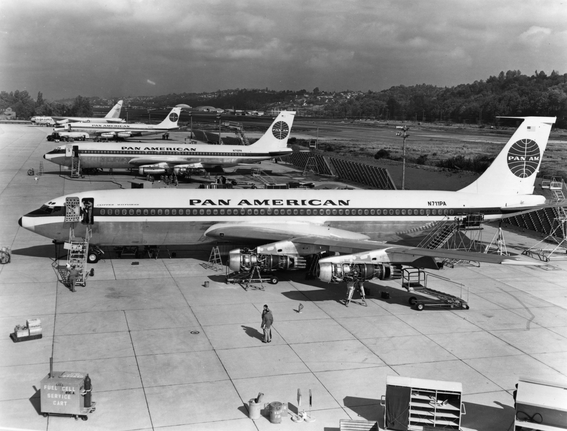 "POISED ON THE FLIGHT LINE in Seattle, Wash., are the first three 707-121 aircraft with Pratt&Whitney JT3C6 engines awaiting delivery to Pan American World Airways in 1958. Aircraft N711PA (foreground) was the jetliner which inaugurated the first regular U.S. jet transport service on Oct. 26, 1958 with a flight between New York and Paris." Left side view from slightly above of Boeing Model 707-121 (r/n N711PA) on the Boeing factory flight line in Seattle, Washington. In background are seen r/n N710PA (center) and beyond, r/n N709PA; a U.S. Air Force Boeing B-52 Stratofortress is seen at far left background.